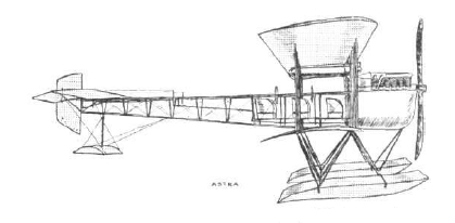 Astra CM sketch